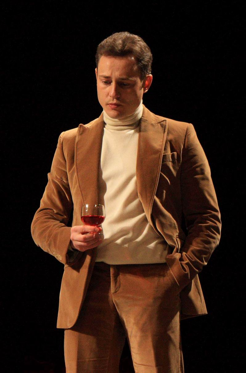 Dmitry Alexeevich Isayev